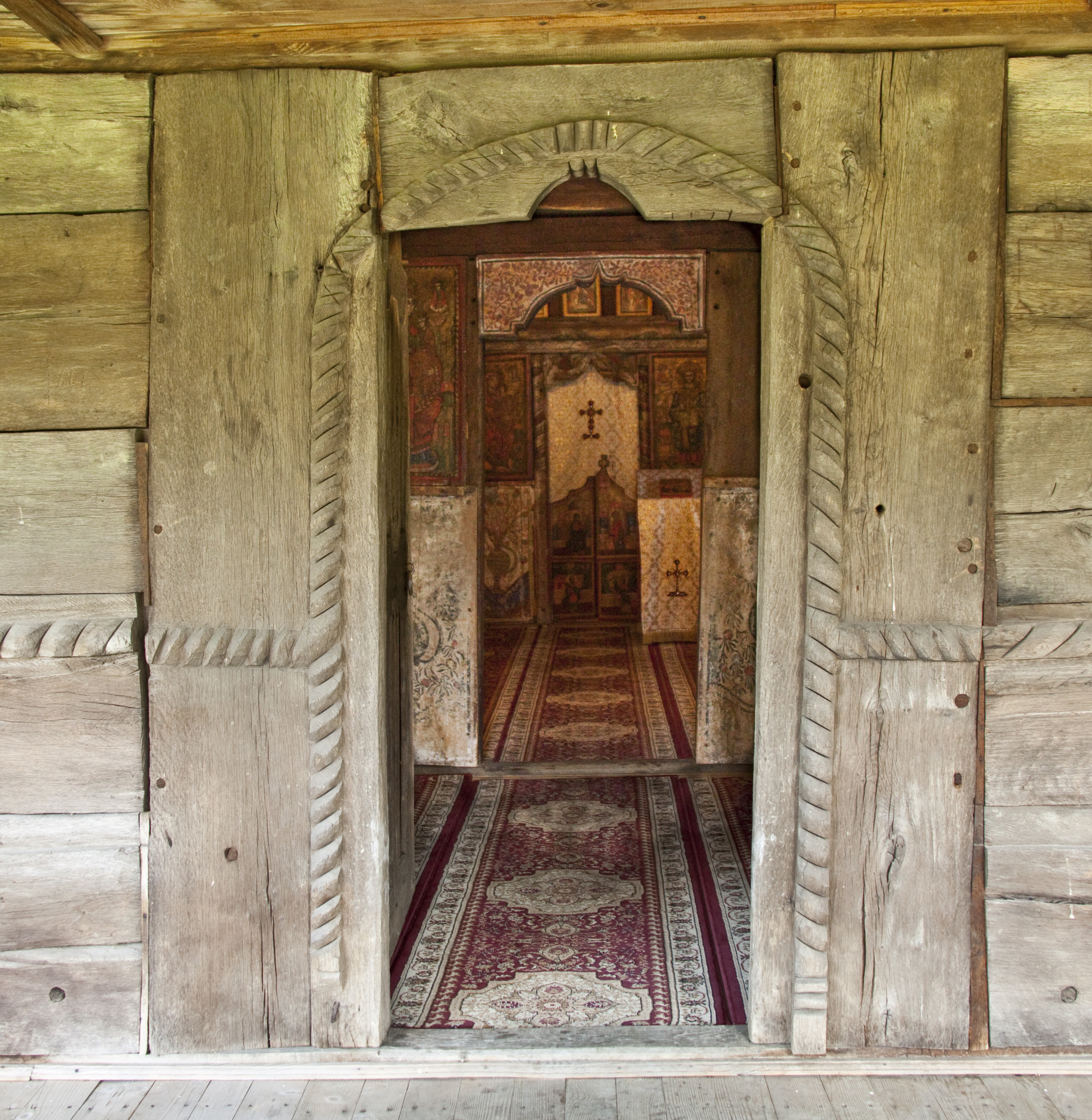 Palanga, Vâlcea county, Romania: the wooden church moved in Curtea de Argeş.